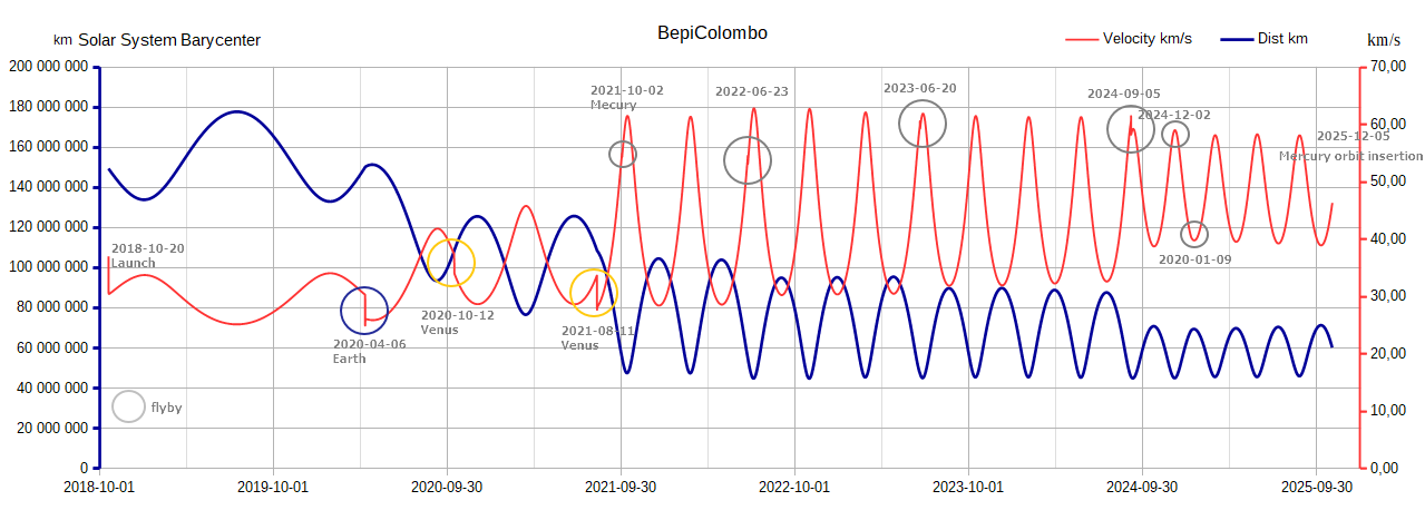 BepiColombo timline in SSB coordinates